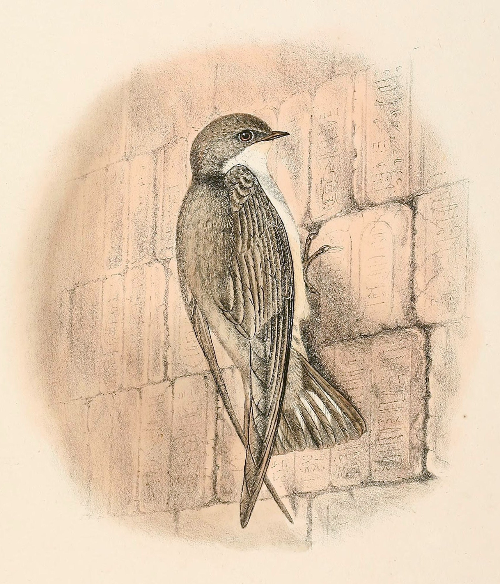 « Cotile obsoleta » = Ptyonoprogne obsoleta (Pale Crag Martin)